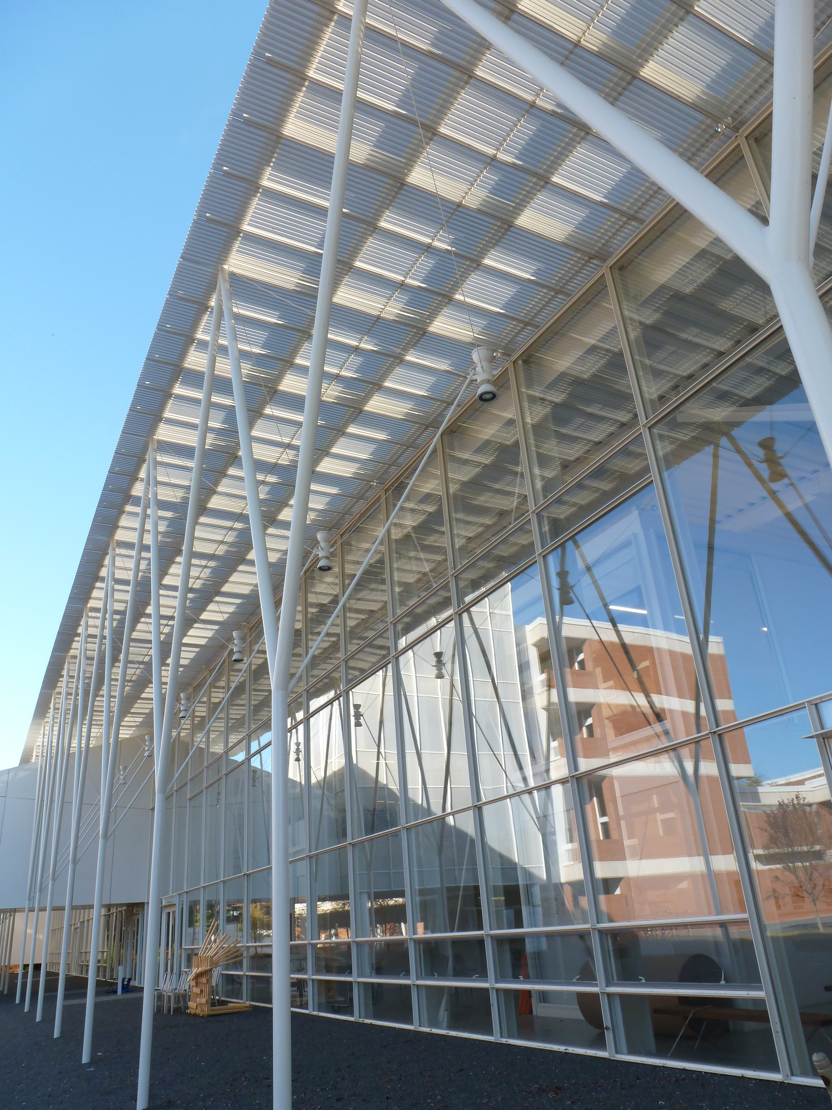 Close-up of the front view of Lee III.